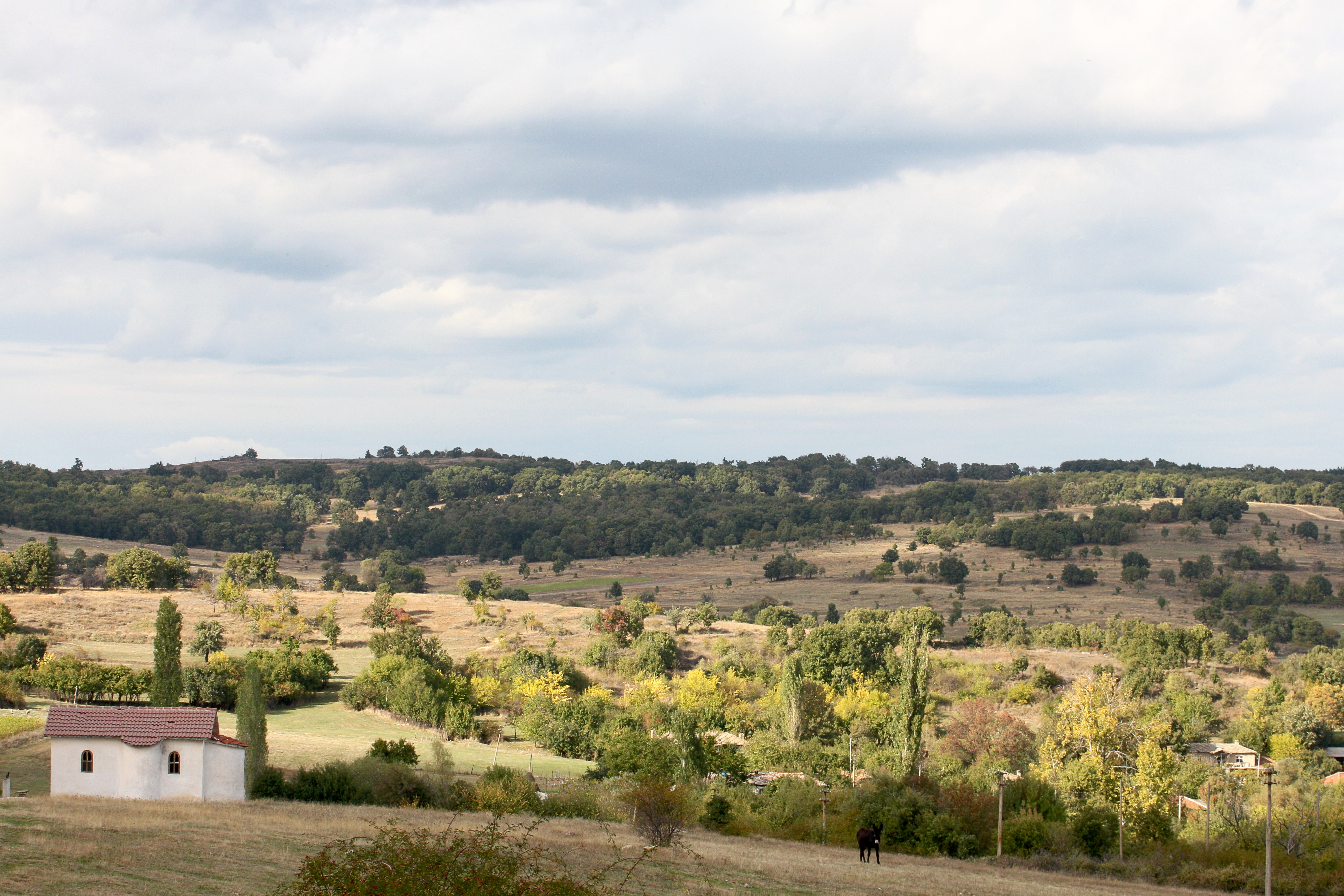 Zhelezino, a village in the Rhodope Mountains, Bulgaria